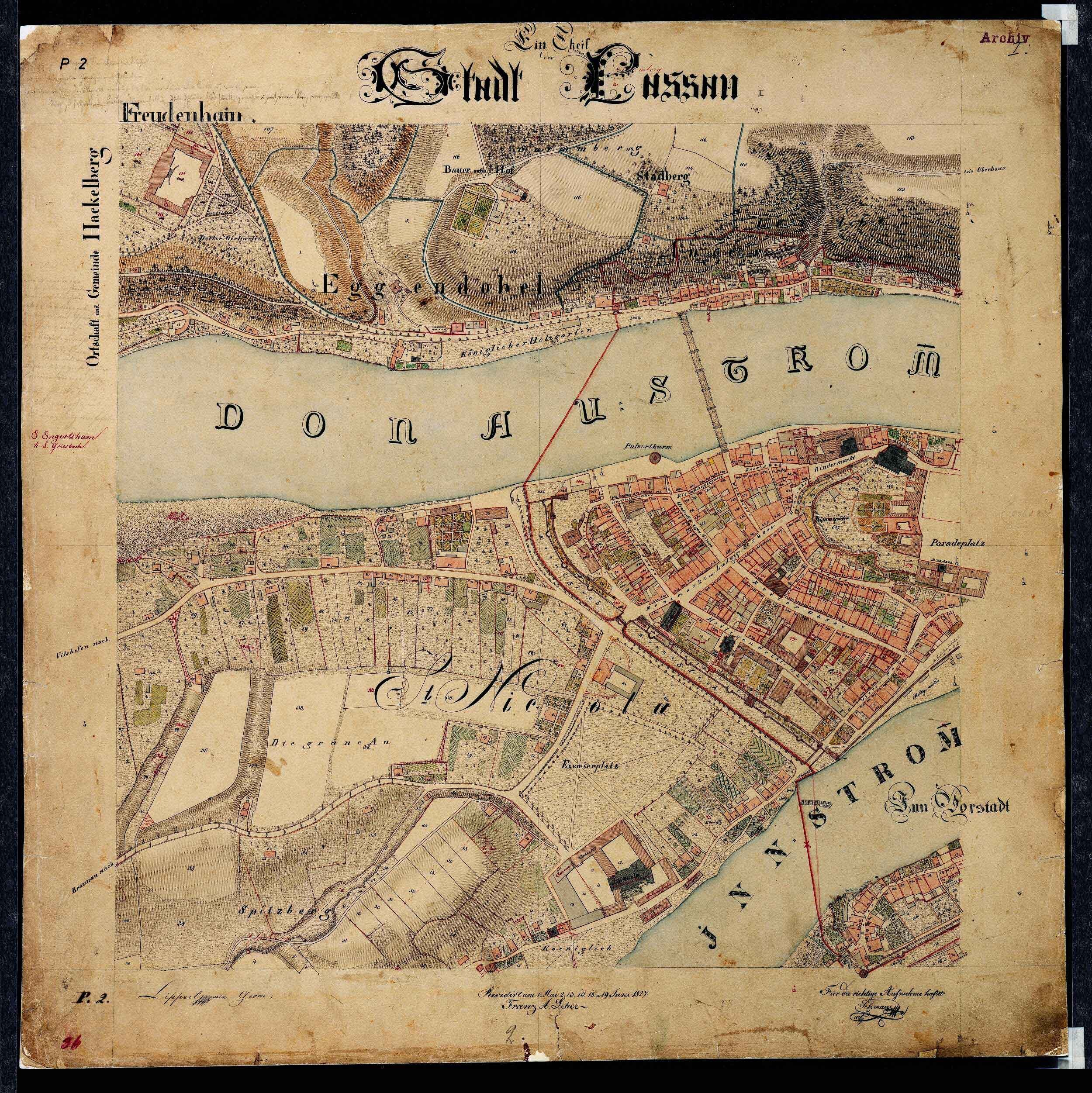 Old map of Passau